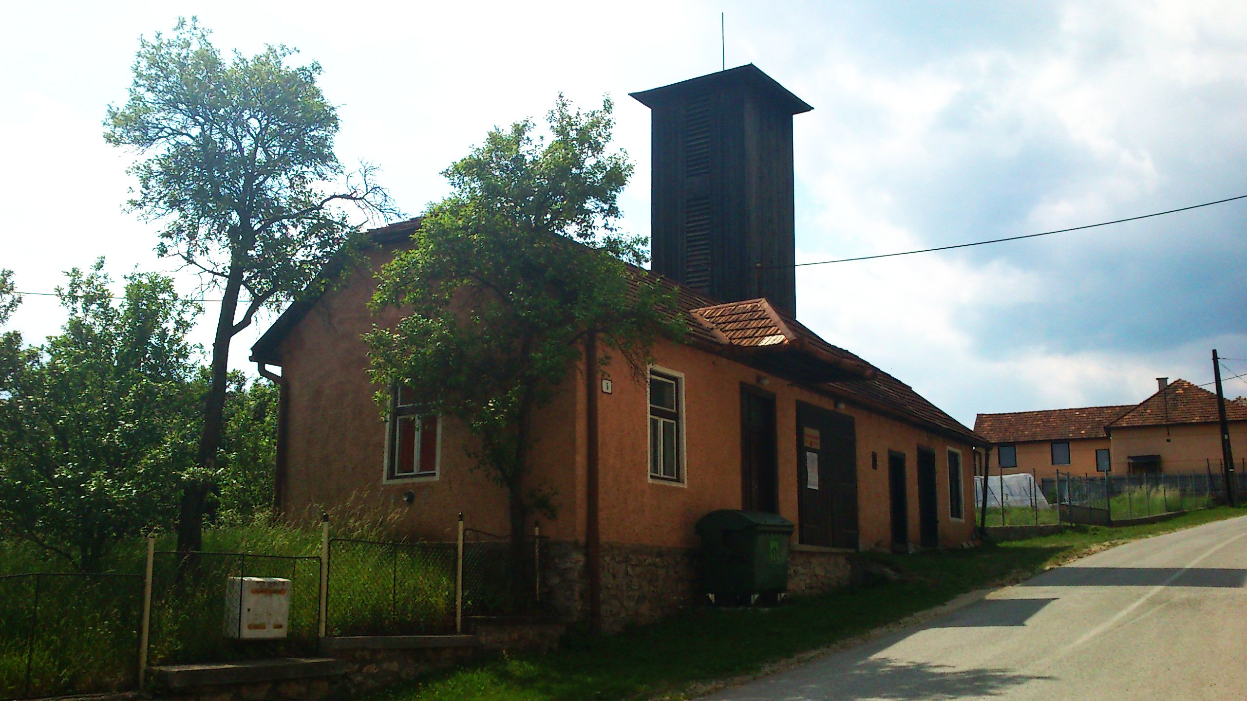 Fire department in Silická Brezová, Slovakia